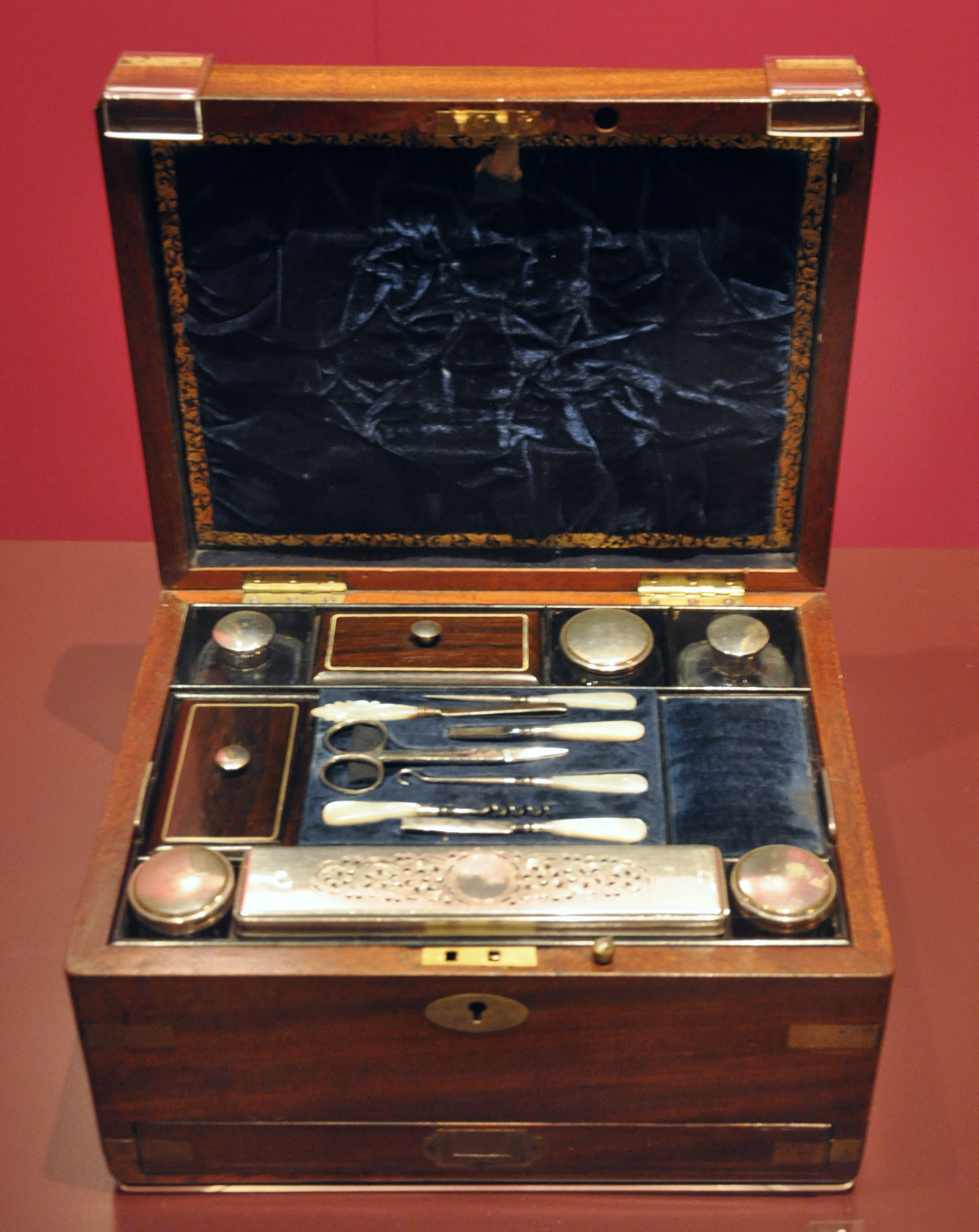 Dressing case used as a make-up case by music hall comic and pantomime dame Harry Randall (1857–1932); made by J. J. Mechi, London, 1840-1860 Victoria and Albert Museum, London, Museum number: S.135:1 to 27-2004; Link